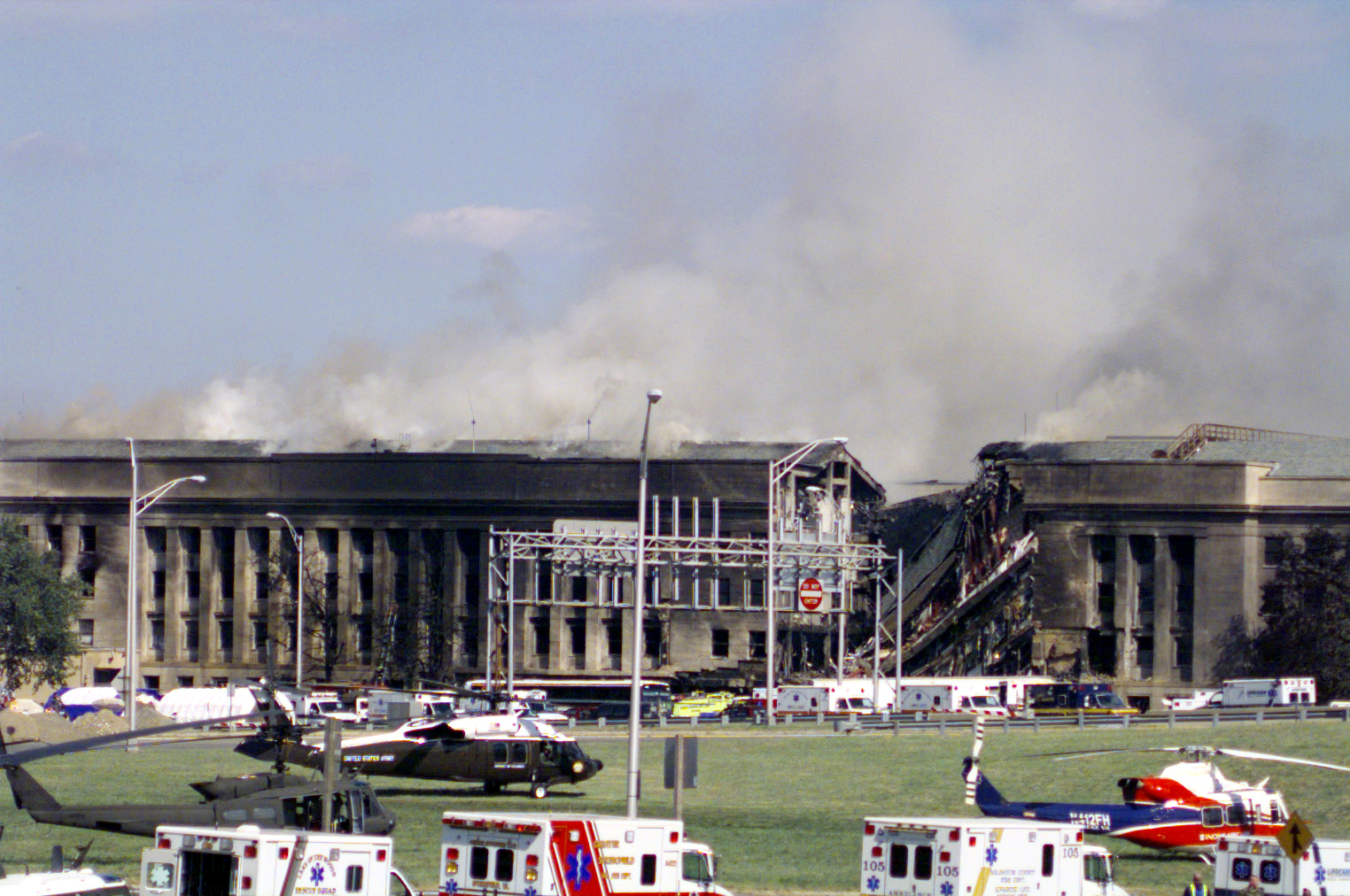 010911-N-3031B-001 Arlington, Virginia (Sept. 11, 2001) -– Smoke and flames rise over the Pentagon at about 10 a.m. EST on Sep. 11, 2001, following a terrorist attack on the Pentagon in which terrorists hijacked a commercial airliner and crashed the plane into the side of the Pentagon. Part of the building collapsed while firefighters continued to battle the flames and look for survivors. The building was evacuated, as were the federal buildings in the Capitol area, including the White House. American Airlines FLT 77 was bound for Los Angeles from Washington Dulles with 58 passengers and 6 crew. All aboard the aircraft were killed, along with 125 people in the Pentagon.